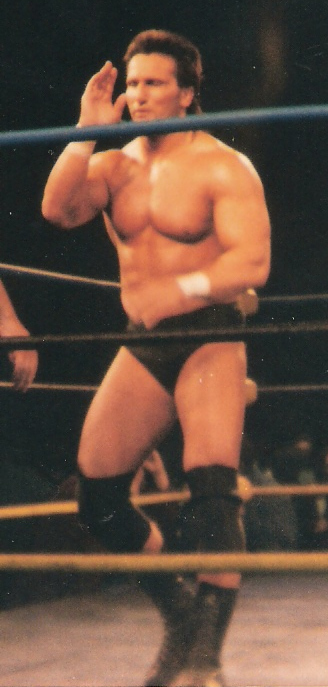 Pretty Paul Roma 1994 in hamburg, germany. Photo by shera57 statistics.